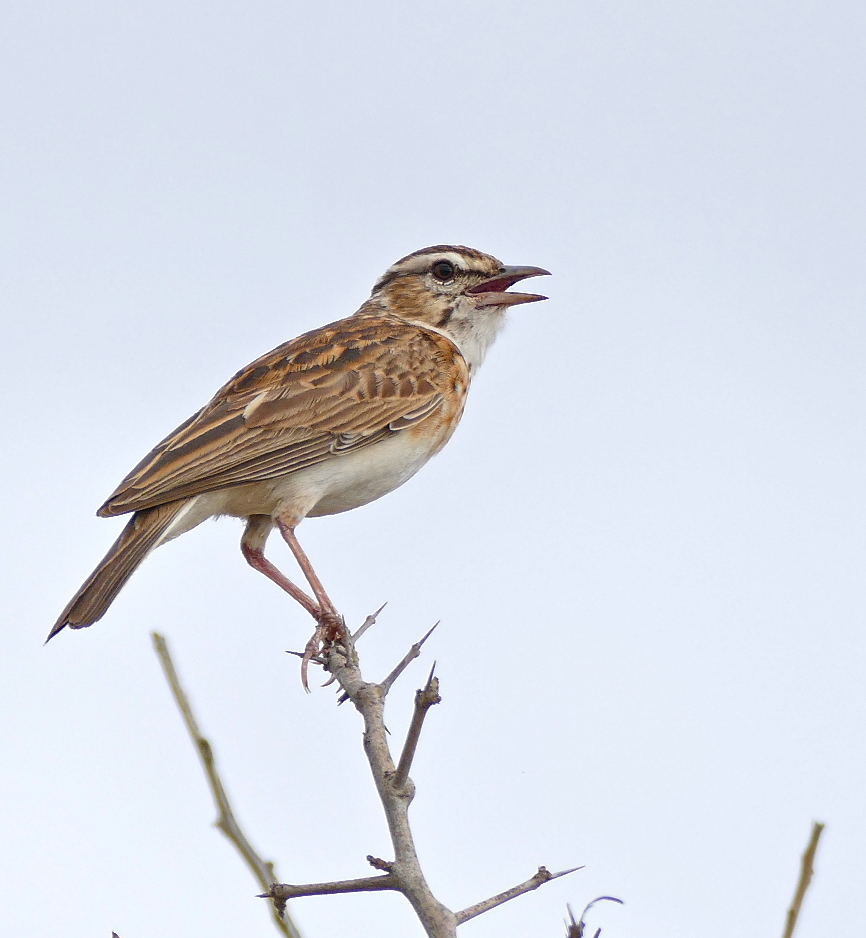 H1-4 Road North of Satara, Kruger NP, Mpumalanga, SOUTH AFRICA